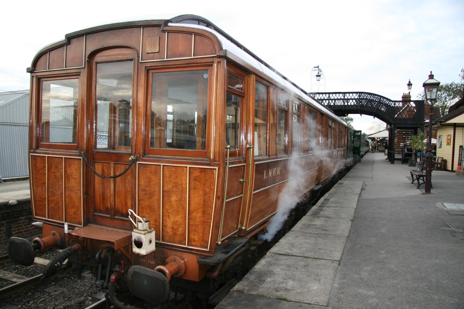 In 1960 the Bluebell Railway commenced train operation from Sheffield Park Station to just outside Horsted Keynes. Fifty years later we have extended our line to Kingscote and are now on the final leg of extending further into the old market town of East Grinstead. Our steam locomotive collection has grown from the original two locomotives (Numbers 55 "Stepney" and 323 "Bluebell") to a fleet of over thirty locomotives and one hundred carriages and wagons. Sheffield Park Station is the headquarters of the Railway and home to the Locomotive Department. Here you will find engines awaiting restoration or their next turn of duty. On Platform 1 you will find our large well stocked gift shop. Housed within the purpose built restaurant at is our real ale bar, The Bessemer Arms, named in honour of the local resident who first saved the line from closure. Horsted Keynes Station is a large country station and home to our award winning Carriage and Wagon Department who are responsible for restoring and maintaining our carriages. It is an ideal place to get married in our 1930's waiting room. Kingscote Station is a quiet country station, the current terminus of the railway and is restored to its British Railways 1950's condition.